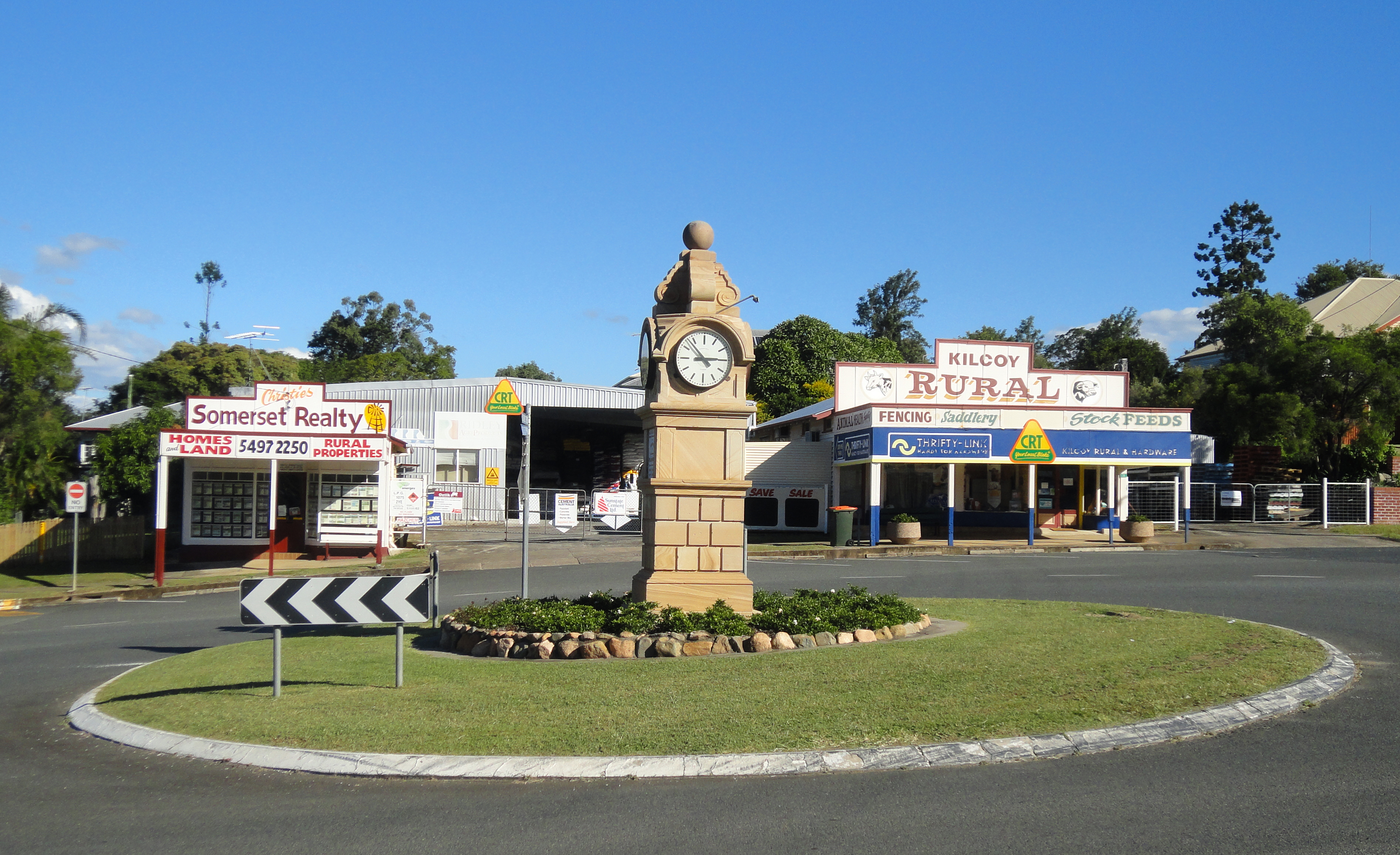 William Butler Memorial Clock, Main Street, Kilcoy, Somerset, Queensland taken on 21 April 2013